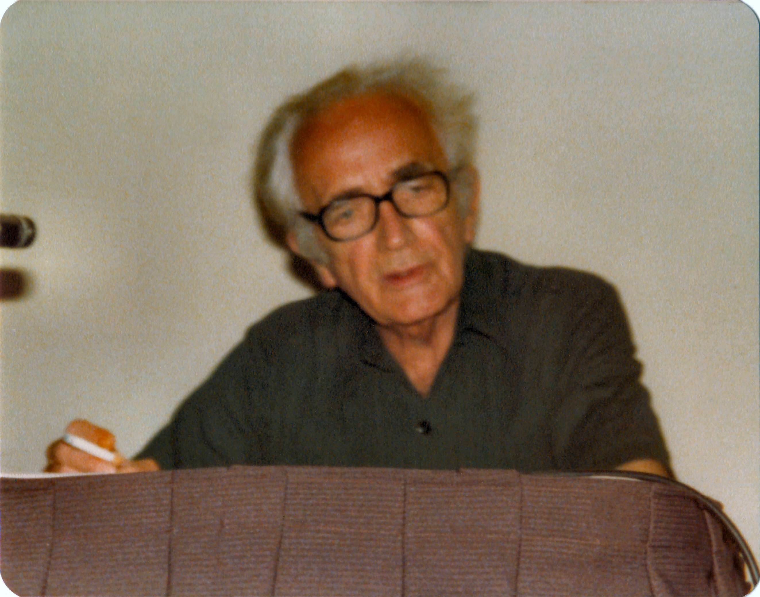 IguanaCon (aka IguanaCon II), the 36th. World Science Fiction Convention (Wednesday, 30-August-1978 to Monday, 04-September-1978), Phoenix, Arizona. Lovecraft Appreciation: What if Lovecraft had Lived into the 1960's? Sunday, 03-Sep-1978, scheduled to run 85 minutes, from 11:15 a.m. to 12:40 p.m. in the Adams Hotel, room Navajo C-D; the panel actually ran nearly 165 minutes, or until 2:00 p.m.. Dr. Dirk W. Mosig, Dr. Donald R. Burleson, J. Vernon Shea, Fritz Leiber, Jr., and S.T. Joshi. The negatives have been found for the IguanaCon photos, but they are in terrible shape; so the scans done from the prints will be the only ones upload here. Sorry. The audio tapes of this panel have been found and converted to mp3 files; and are now available for free downloading at Just in time for H. P. Lovecraft's 120th. birthday (Friday, 20-August-2010).